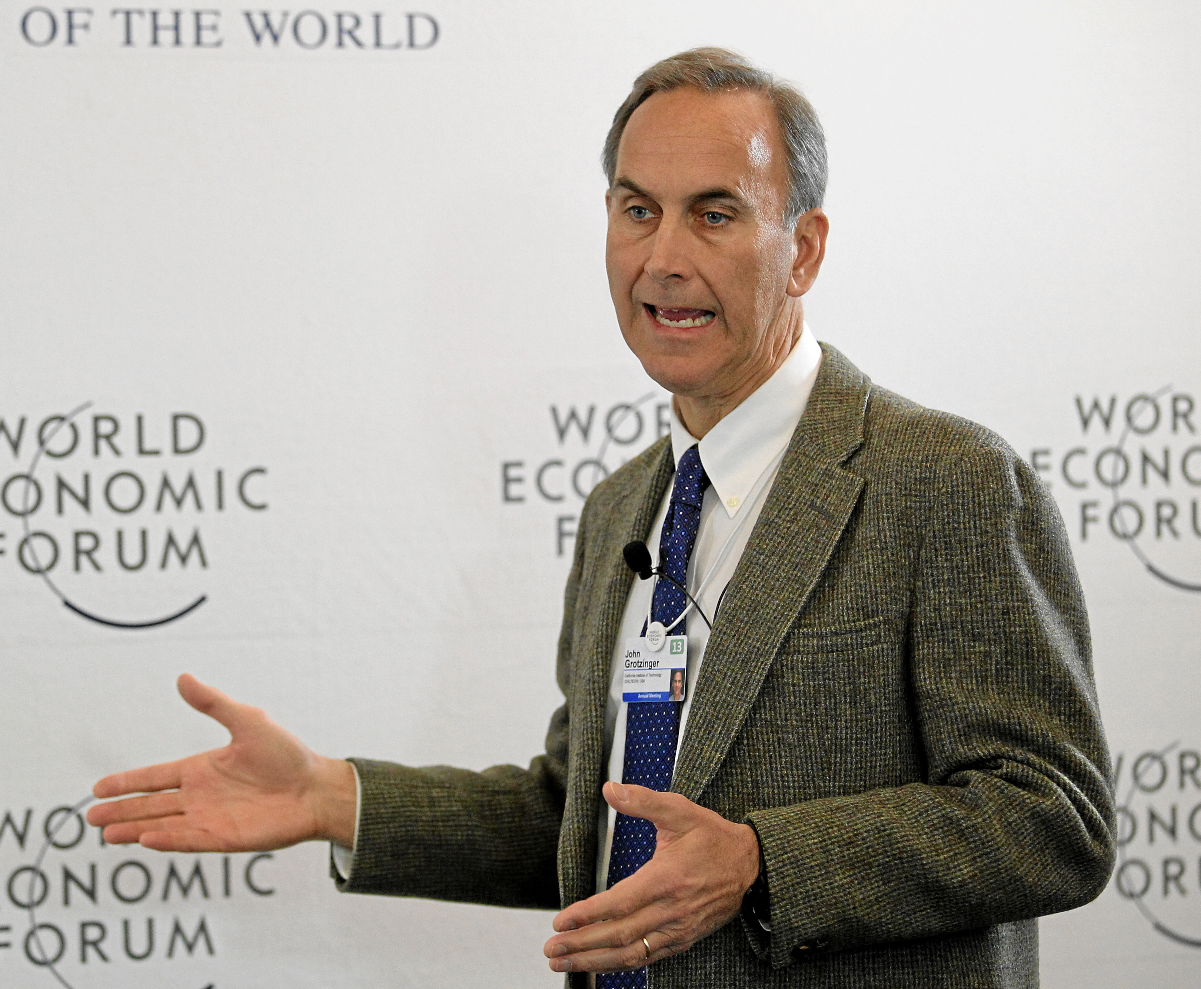 DAVOS/SWITZERLAND, 25JAN13 - John Grotzinger (identified from name badge) during the session 'Maximizing the Power of Science' at the Annual Meeting 2013 of the World Economic Forum in Davos, Switzerland, January 25, 2013. Copyright by World Economic Forum Moritz Hager